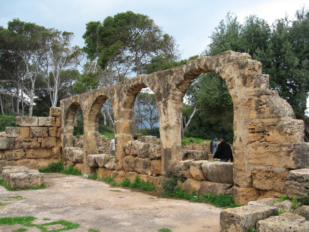 Tipasa remainings